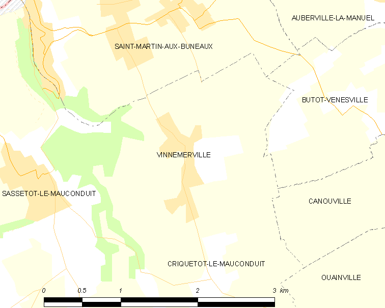 Map of French municipality Vinnemerville